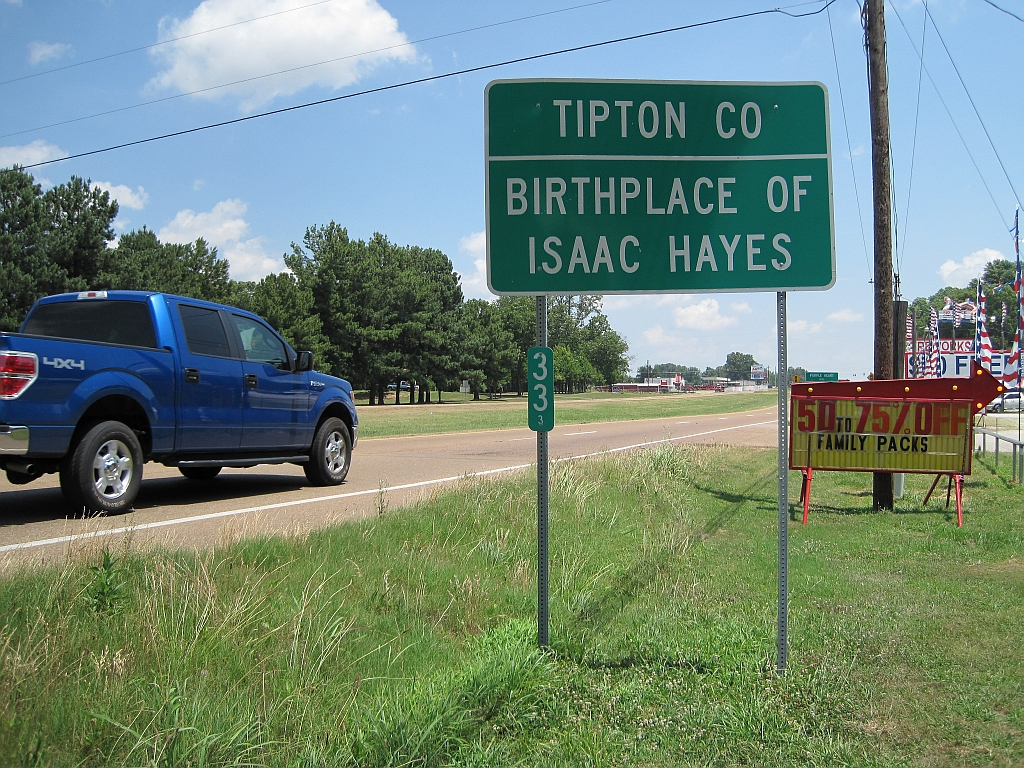 Tipton County, Birthplace of Isaac Hayes